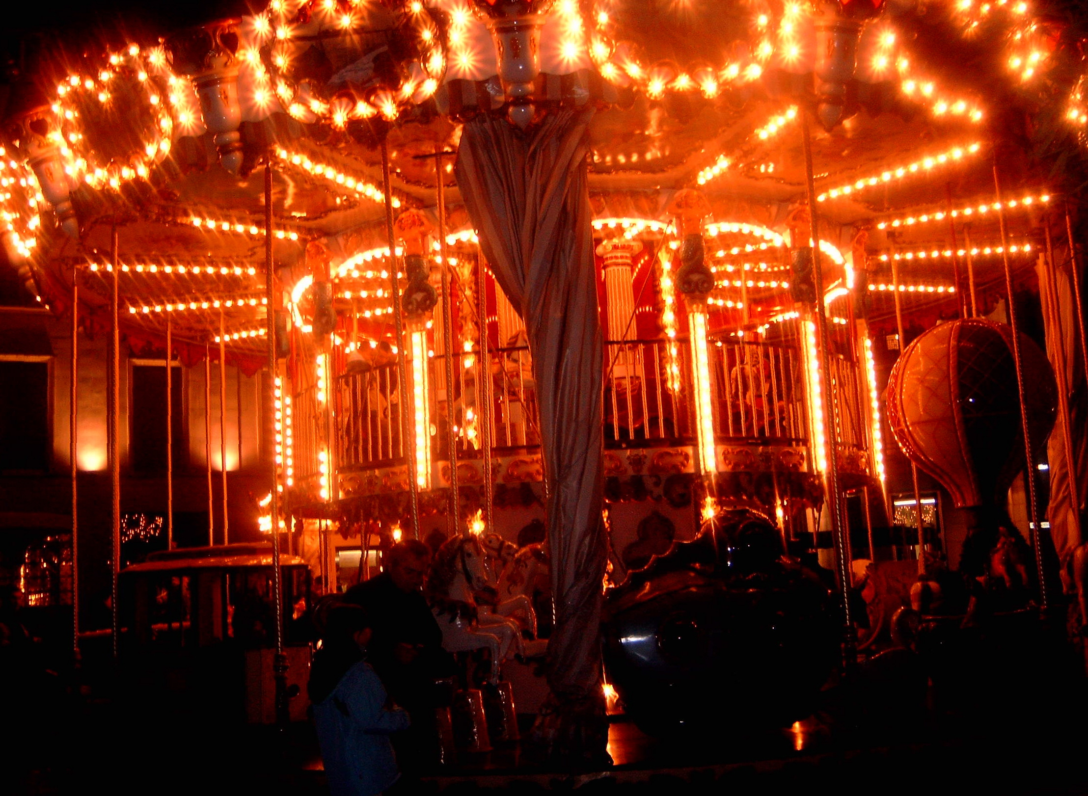 Merry-go-roud (Carousel) in Orleans, France, New Year 2008; this type does depict scenes from Jules Verne